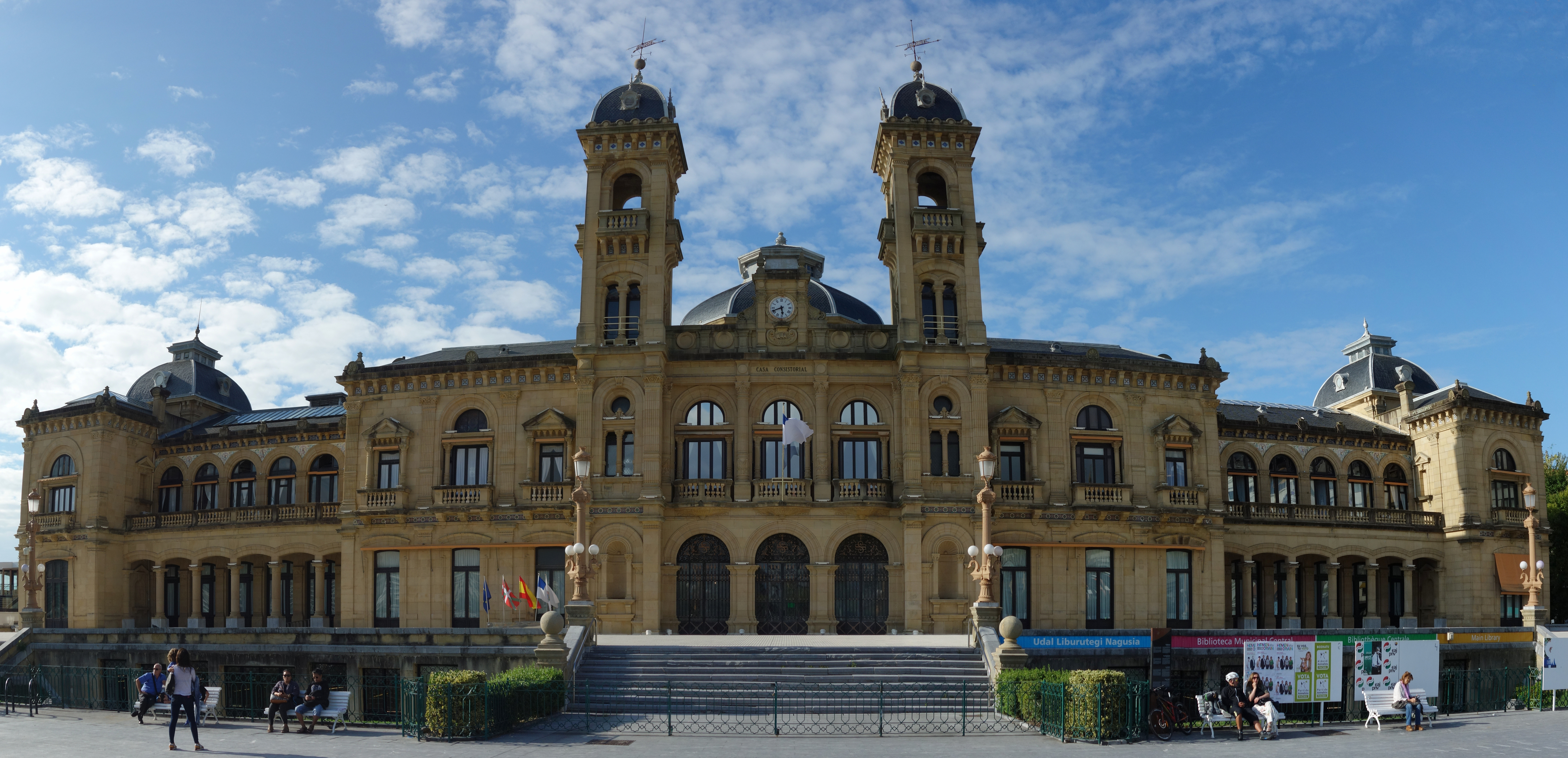 The town hall of San Sebastián, Spain.